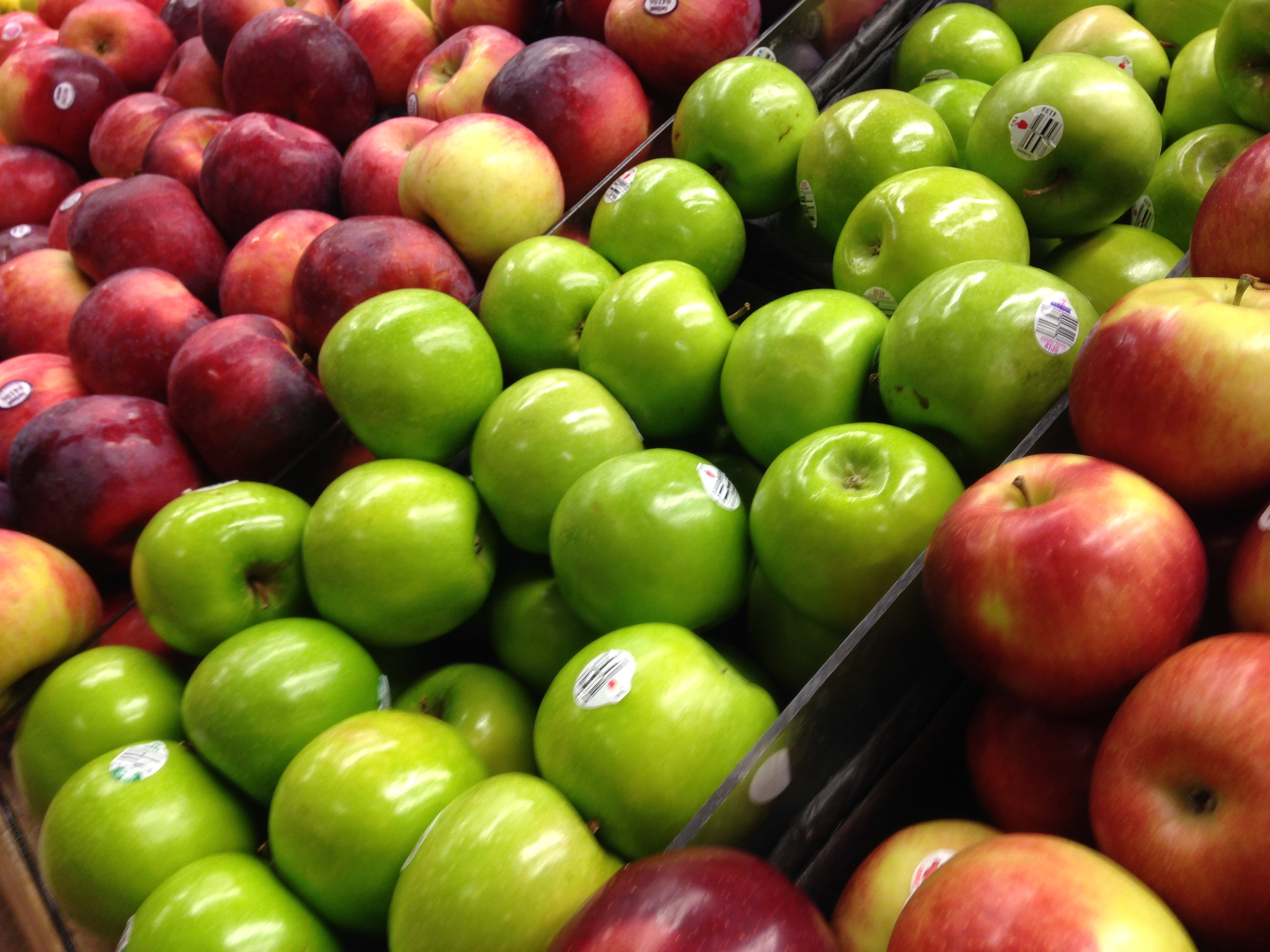 An apple display at a local supermarket in New Hampshire